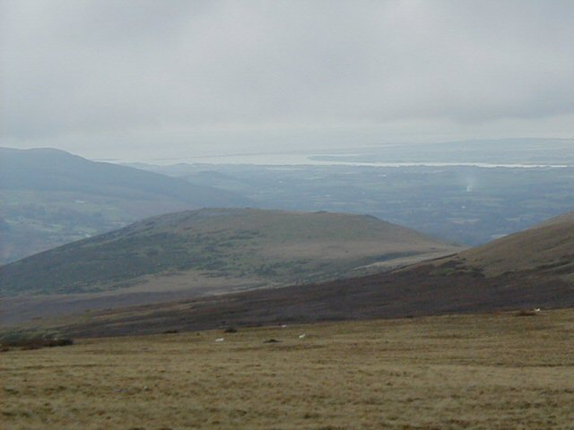 View towards Moel Faban and Menai Straits.